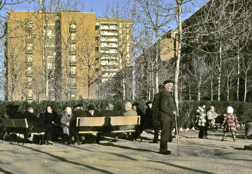 Elderly and children in Moratalaz Park. Madrid, Spain